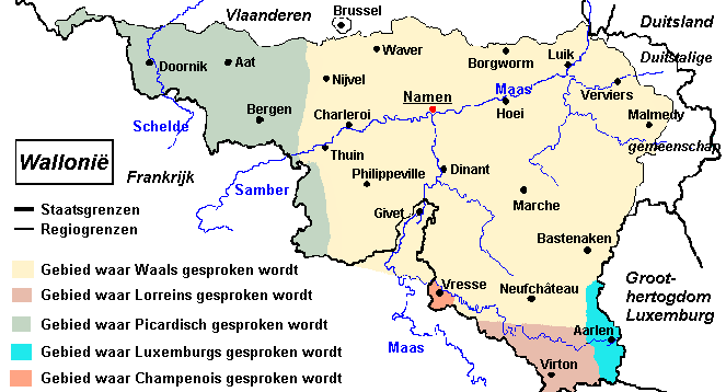 Linguistic map of Wallonia, showing where the different native languages (Walloon, Picard, Champenois, Lorrain and Luxemburguish) are spoken. From the Walloon language presentation site; the author released it under GFDL. Walon: Mape linwistike del Walonreye, ki mostere li spårdaedje des difirins lingaedjes do payis (walon, picård, tchampnwès, lorin eyet lussimbordjwès) k' on-z î cåze. Original version: nl::Image:Linguistic map of Wallonia.png